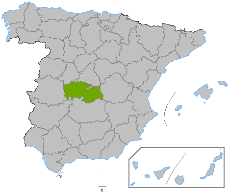 Location of the province of Toledo, in Spain. Basado en: ProvPont.jpg Source: Designed by Satesclop. Original picture, designed by Sobreira.